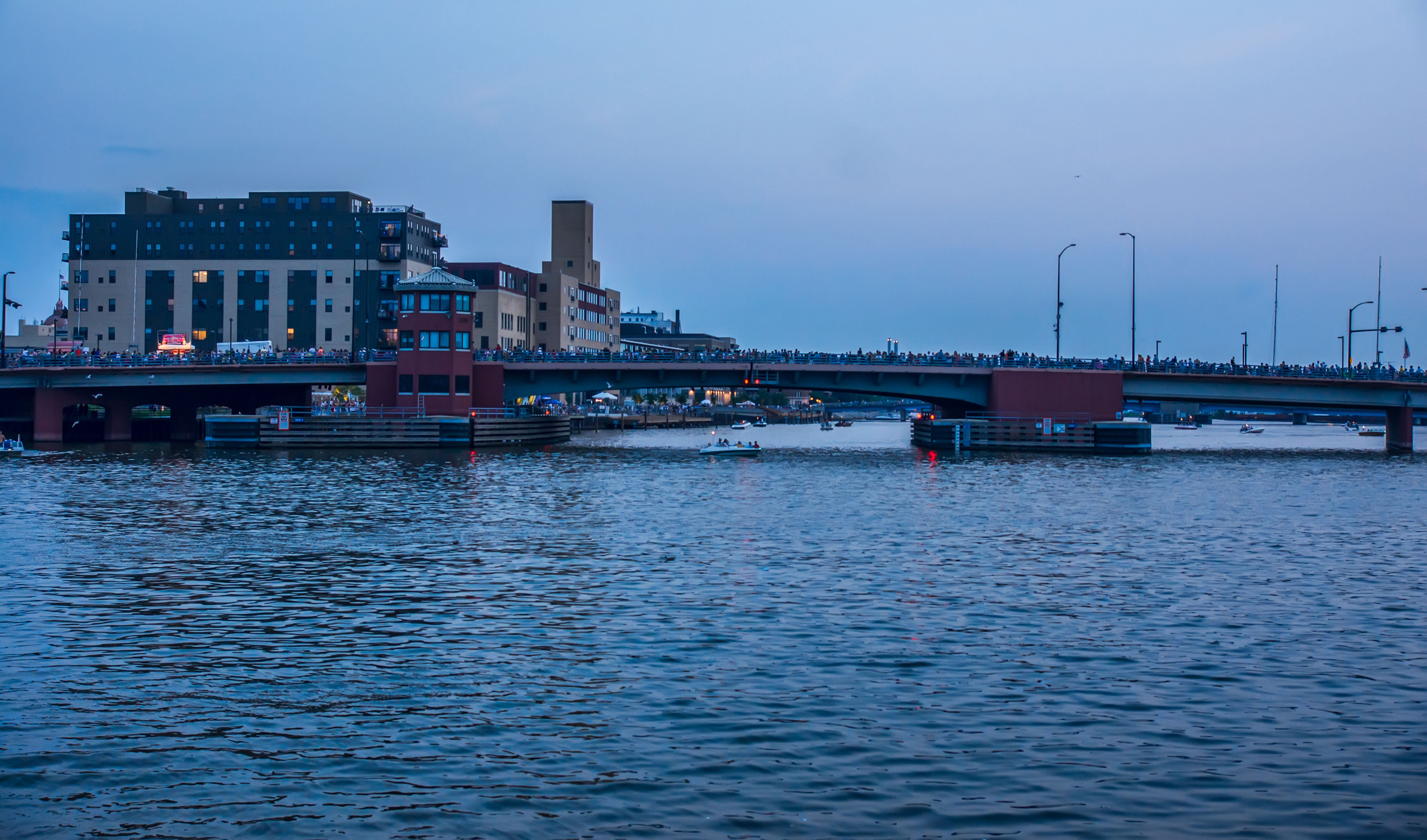 Ray Nitschke Memorial Bridge covered with foot traffic on 4th of July evening.